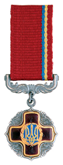 Miniature badge of the Order of Merit (Ukraine)